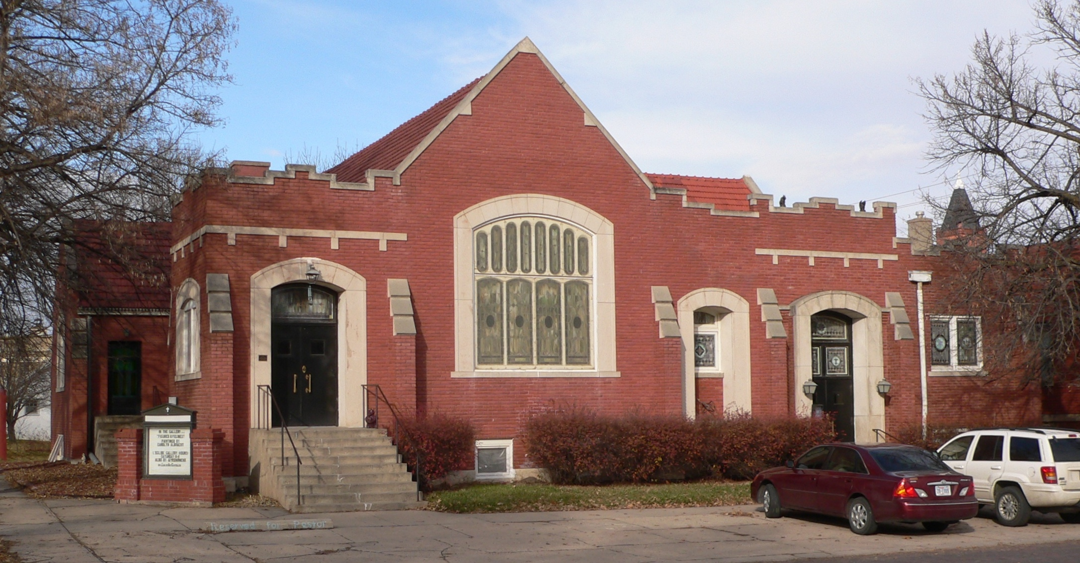 United Brethren Church building in Aurora, Nebraska, seen from the south. The building was designed in Tudor Revival style by architects "Mr. Blair" and Harvey Wood, and built in 1912. It is listed in the National Register of Historic Places. The building is no longer used as a church; it is currently occupied by L'eglise Art Center & Gallery.